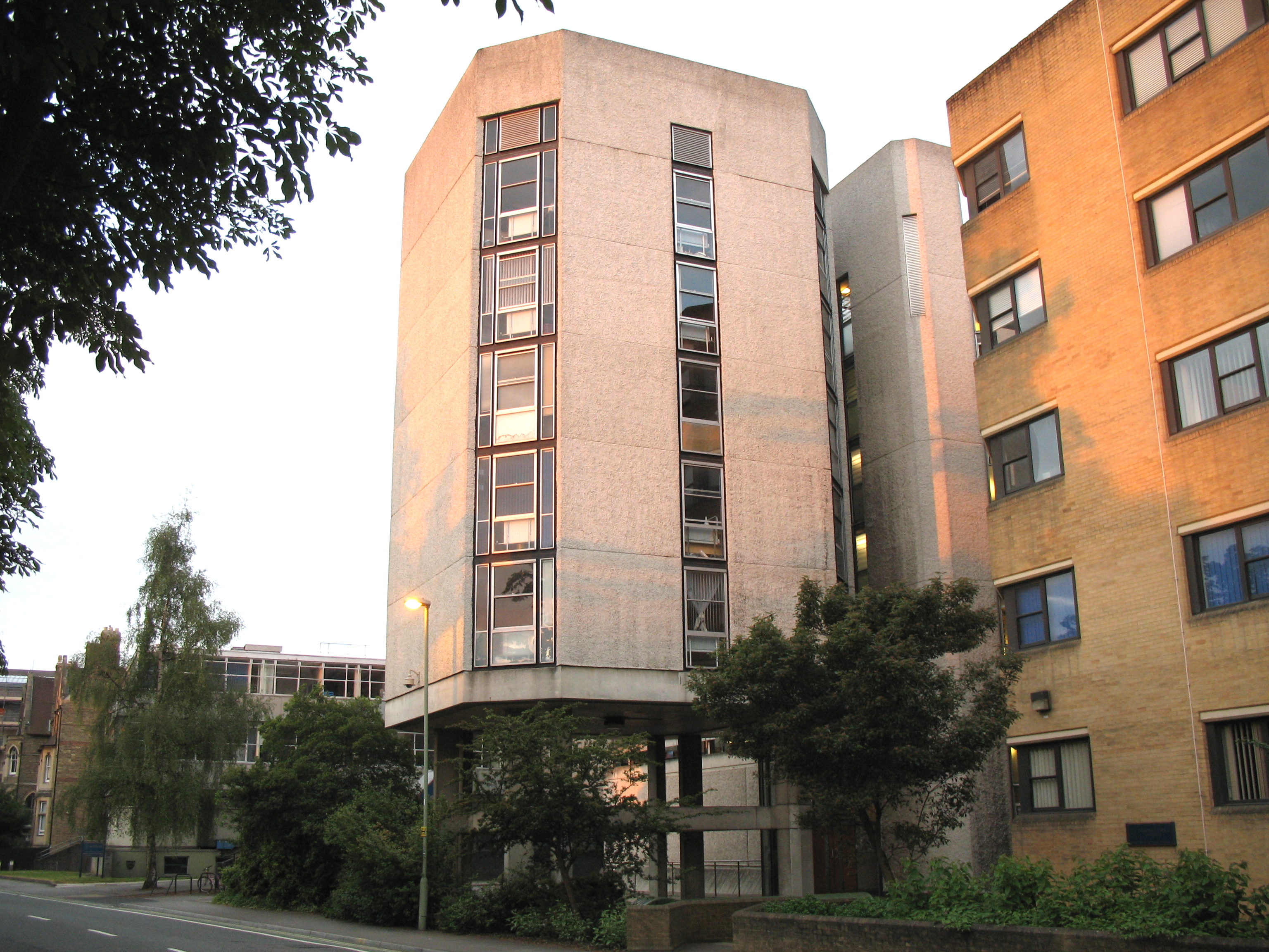 Holder Tower, Department of Engineering Science, Oxford University